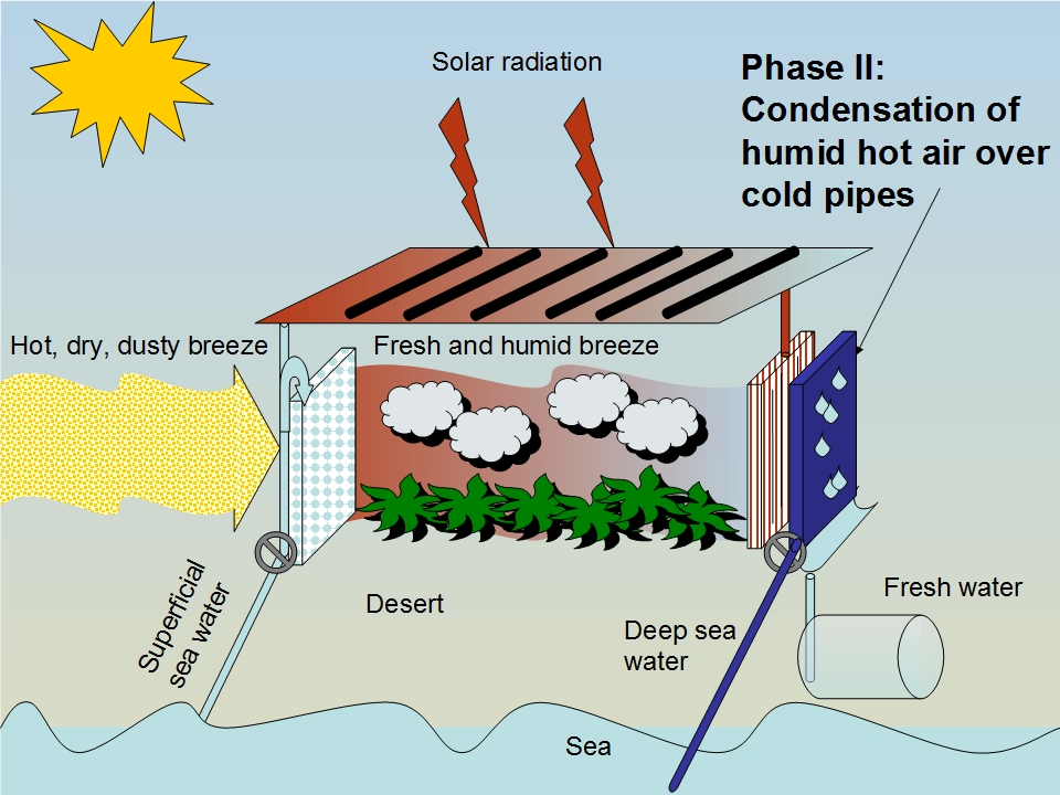 Drawing showing the condensation process in the Seawater Greenhouse